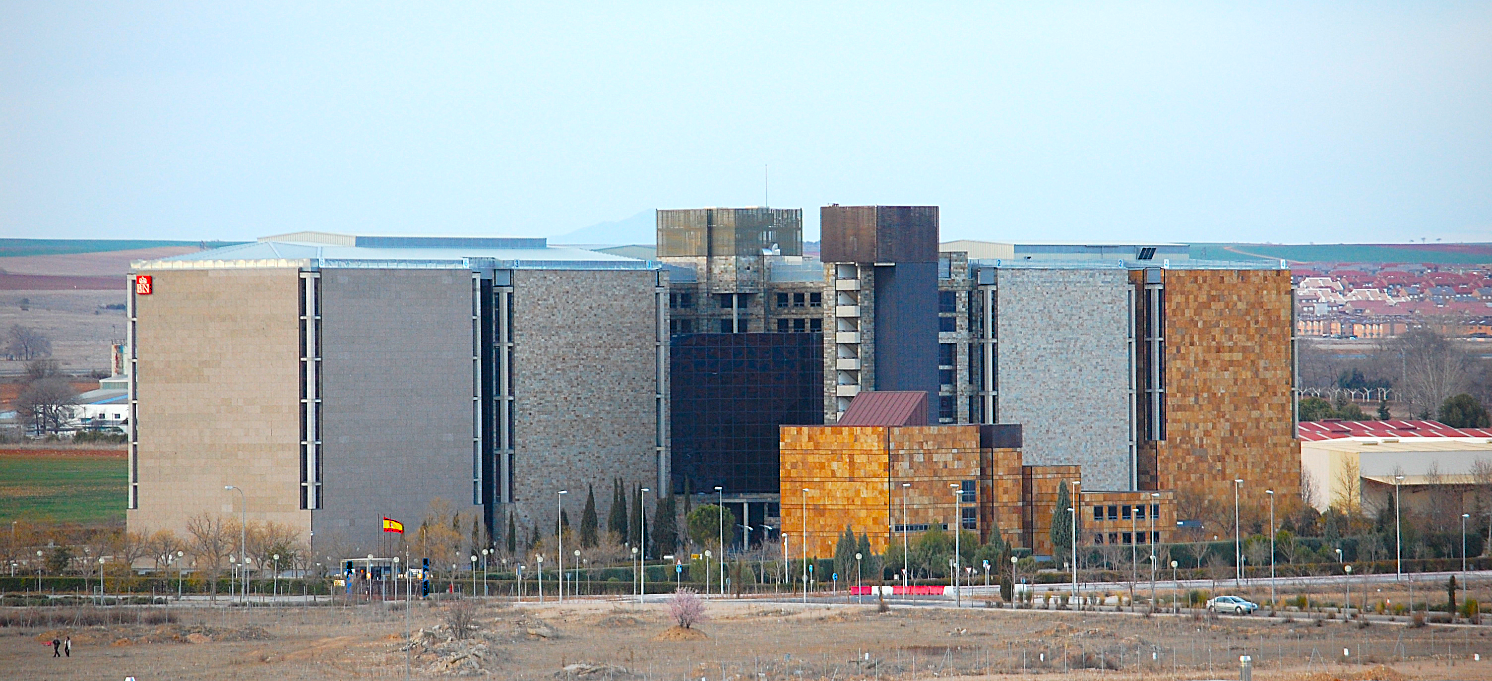 Building of the National Library of Spain (BNE) in Alcalá de Henares. Designed by architect Francisco Fernández Longoria, consists of six towers, to deposit books in more than 250 kilometers of shelving. Begun in 1988 on land donated by the University of Alcalá, and has had several extensions. It now houses much of the collection of the BNE, and has a reading room with 40 seats.